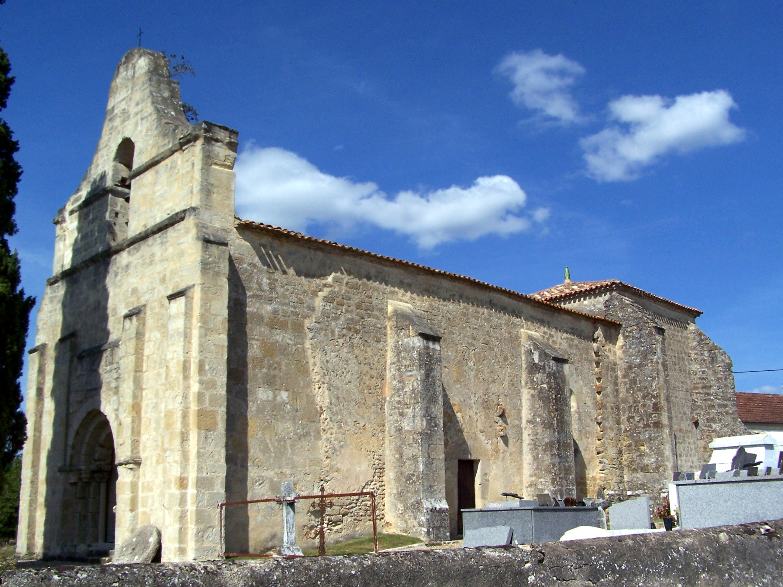 Church Saint-Antoine of Saint-Antoine-du-Queyret (Gironde, France)